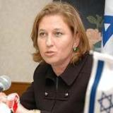 Israel's Foreign Minister Tzipi Livni (VOA file photo)